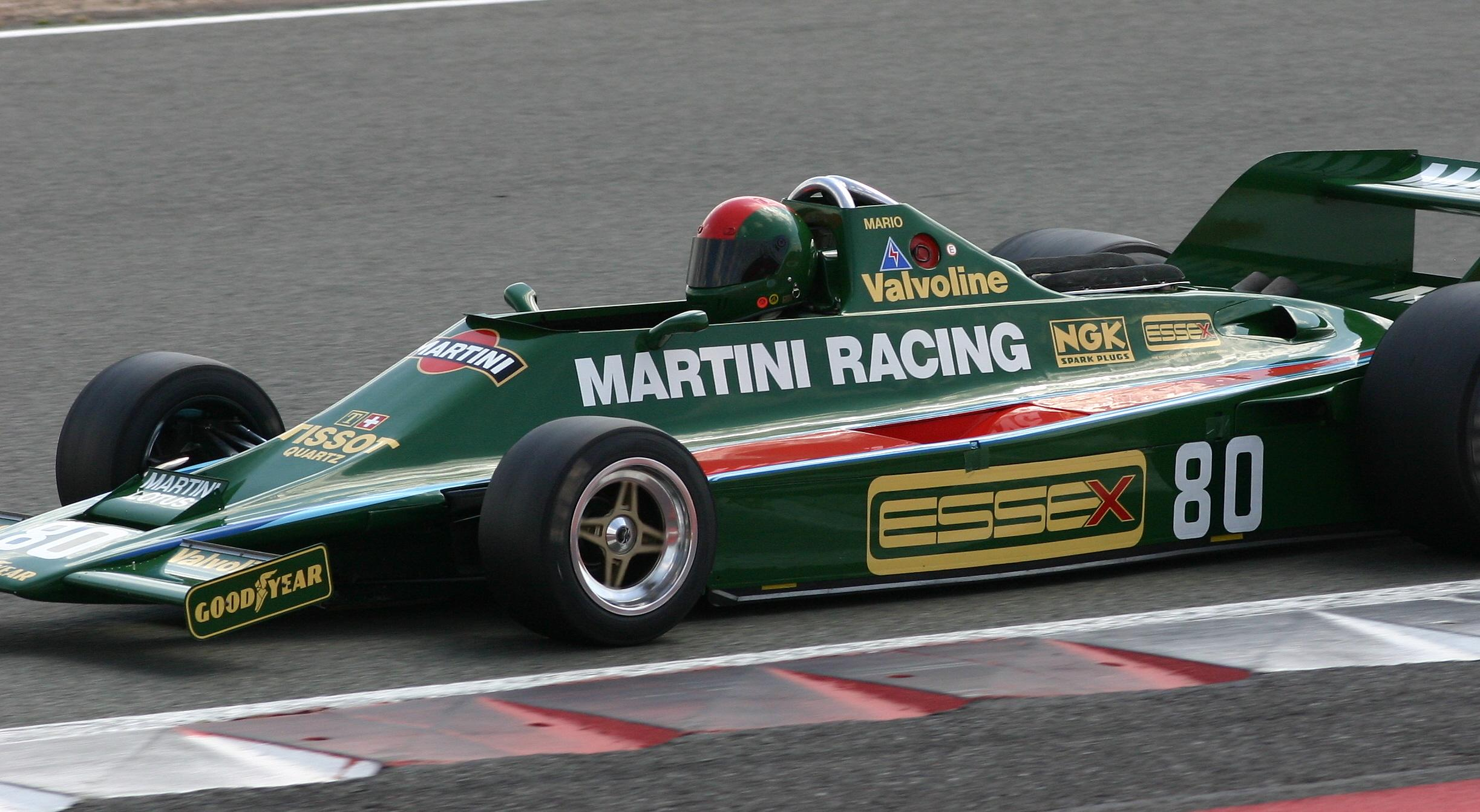 The Lotus 80 being driven at the 2008 Silverstone Classic race meeting.